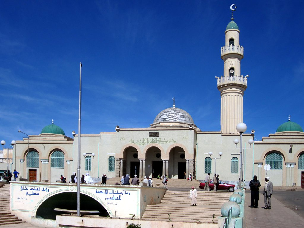 Kulafah Al Rashidan Great Mosque in Asmara, Eritrea, was erected in 1938. The minaret resembles a fluted Roman column.